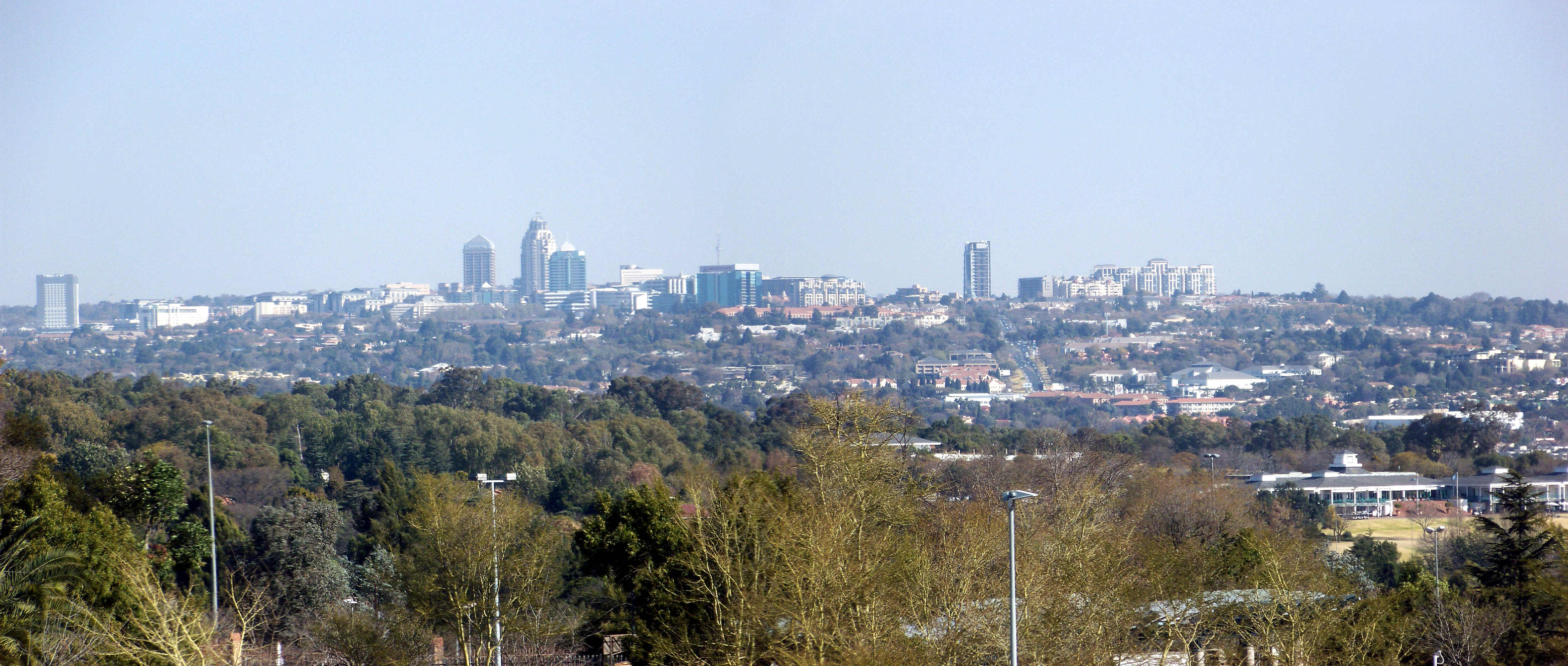 Sandton skyline from Megawatt Park